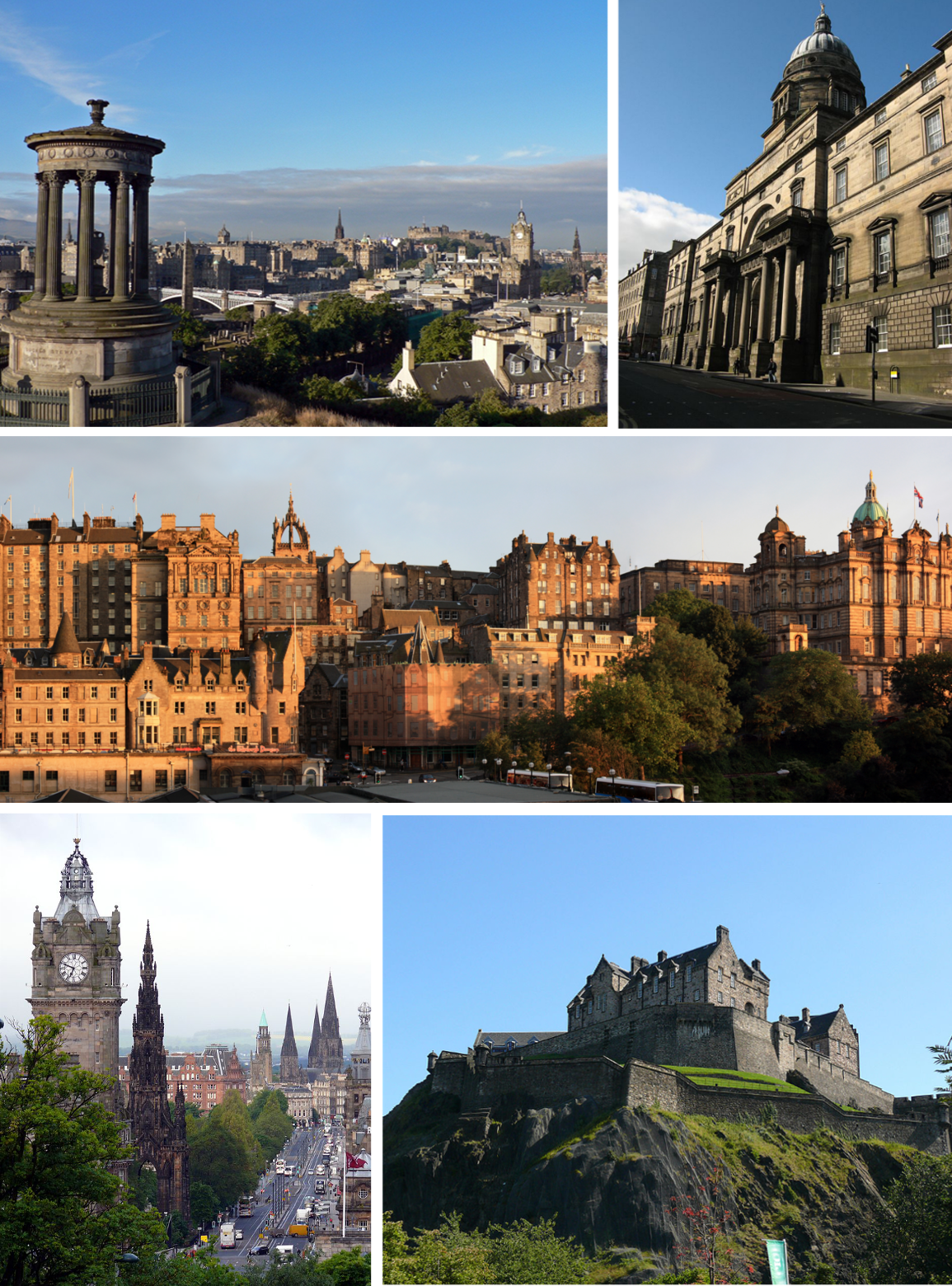 Clockwise from top-left: View from Calton Hill, University of Edinburgh Old College, View of Edinburgh Old Town, Edinburgh Castle, Princes Street as seen from Calton Hill.